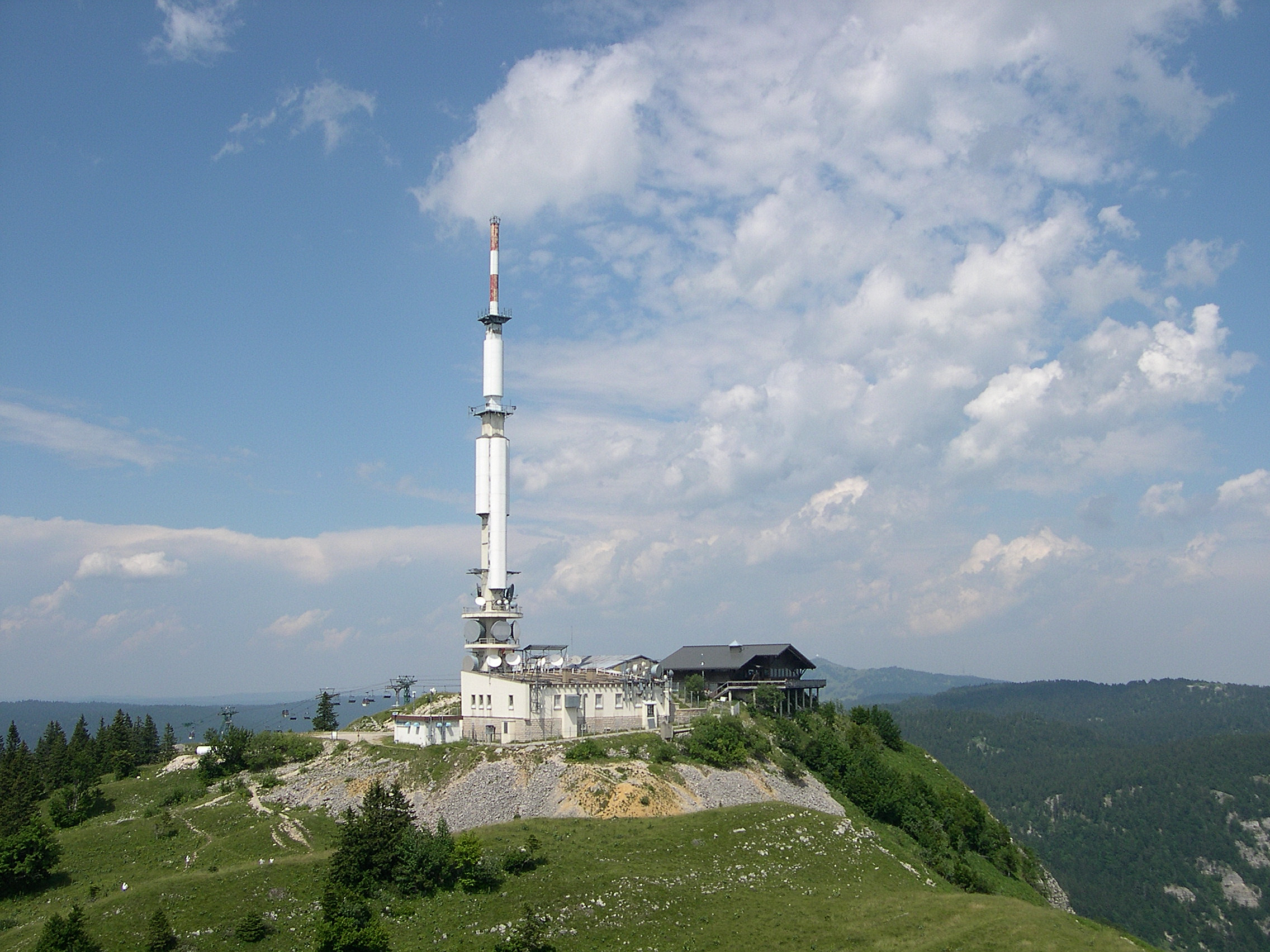 Mont Rond (1553 m.), Jura Mountains, France